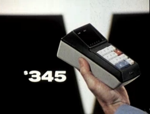 Screen capture showing a man holding the calculator with the retail price. 00:53 in the movie at the Prelinger Archive. Sharpened and cropped with GIMP.